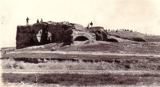 Picture of Naqortaya in Bakhdida, Iraq